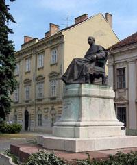 The statue of János Szily, work of István Tóth (1861-1934)